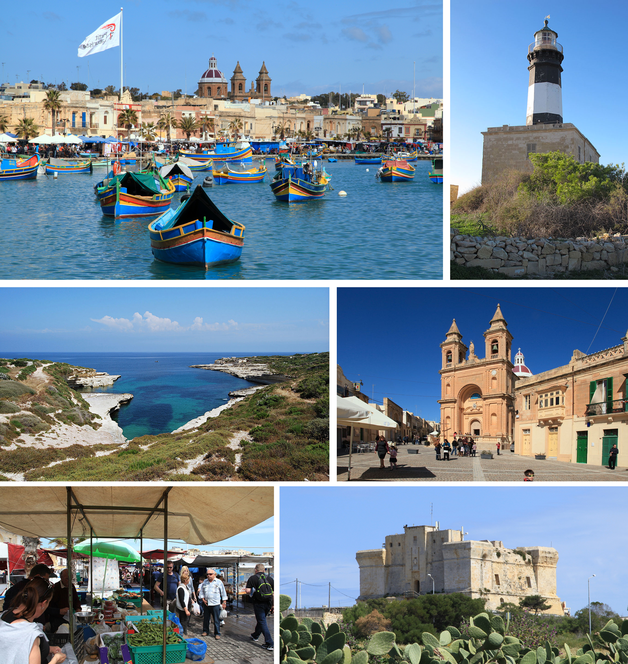 Montage of various landmarks in Marsaxlokk, Malta